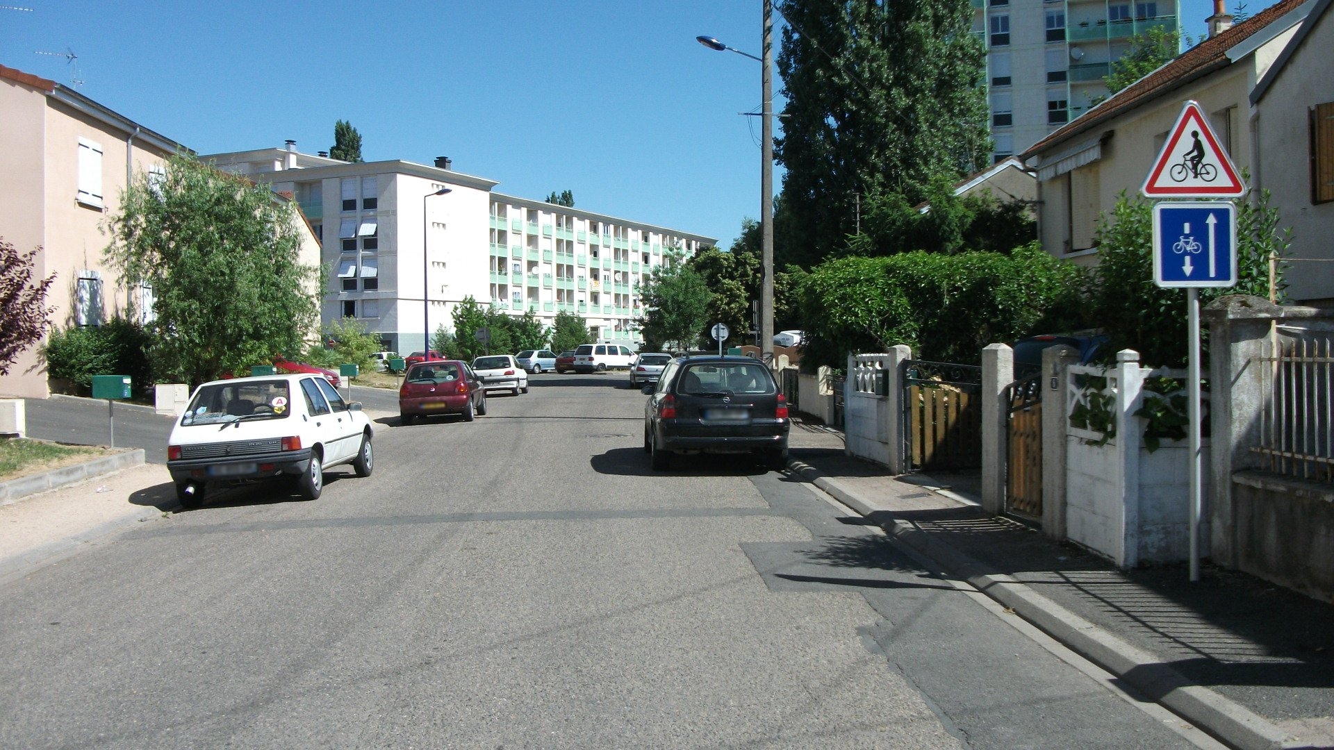 Petits Prés St in Bellerive-sur-Allier, France. It intersects a shared space since mid 2010.